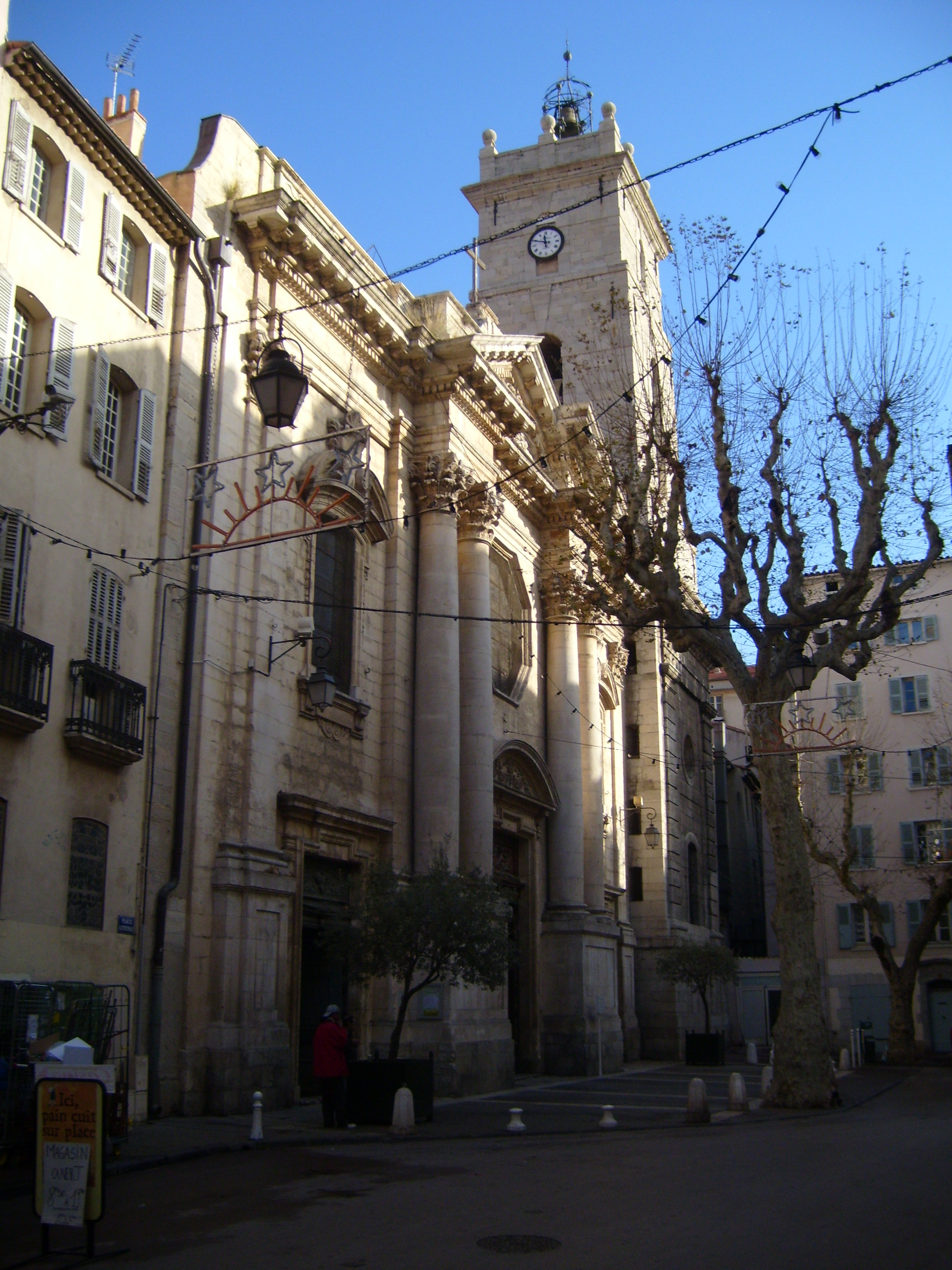 Exterior of Toulon Cathedral